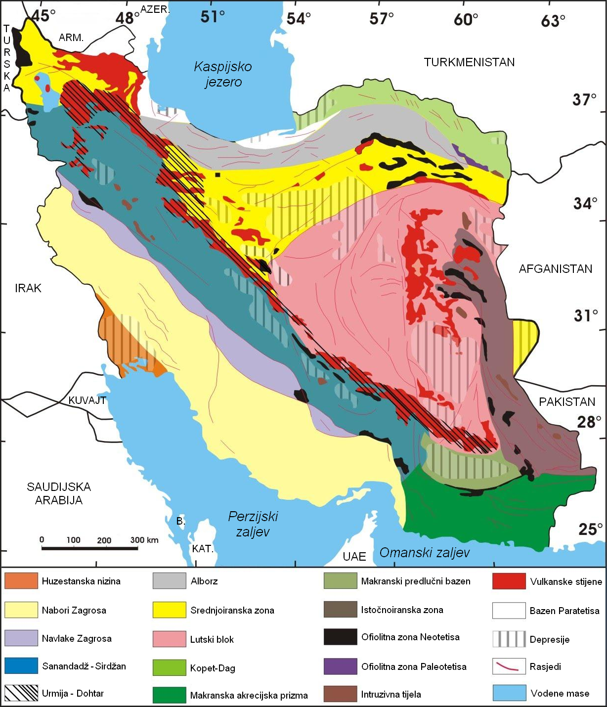 Geological zones of Iran (New version) (Croatian)